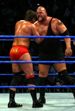 Big Show about to chokeslam JBL during a WWE house show held in Kitchener, Ontario, Canada on January 15, 2005. (Cropped and rotated from Flickr)cokeslam